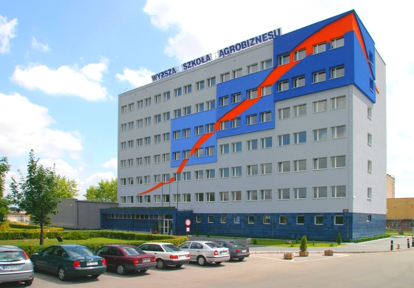 Main building - Academy of Agrobusiness in Lomza, Poland